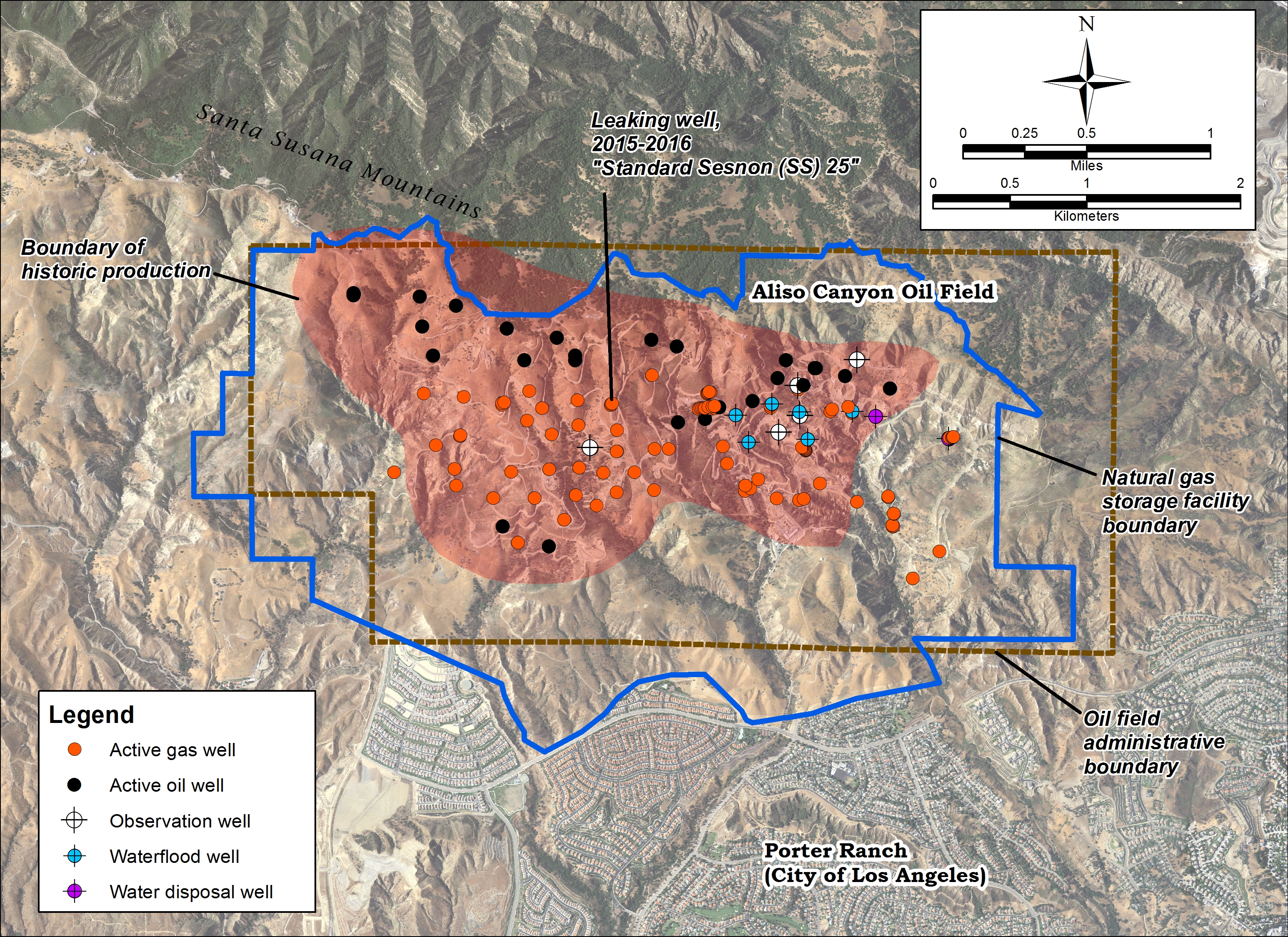 Detail of Aliso Canyon field and Southern California Gas Co. storage facility, showing the leaking well. Data is public domain and freely licensed (aerial is USDA NAIP 2010,work of US government, etc.) Map by self in ArcGIS 10.2.